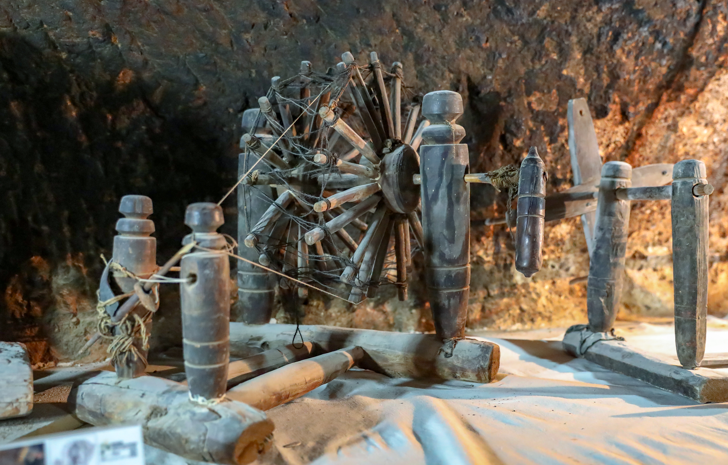 Charkhu from Maymand, Kerman Province, Iran